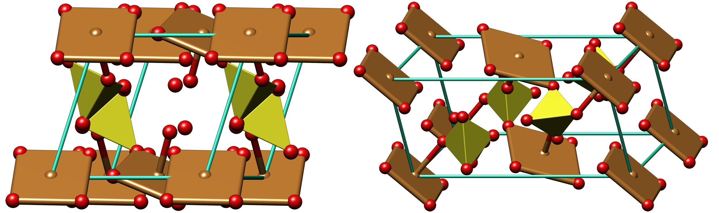 Crystal structure of chalcanthite - CuSO4·5H2O. Beevers C, Lipson H Colour code: Copper, Cu: brown Sulfur, S: olive Oxygen, O: red Cell: cyan